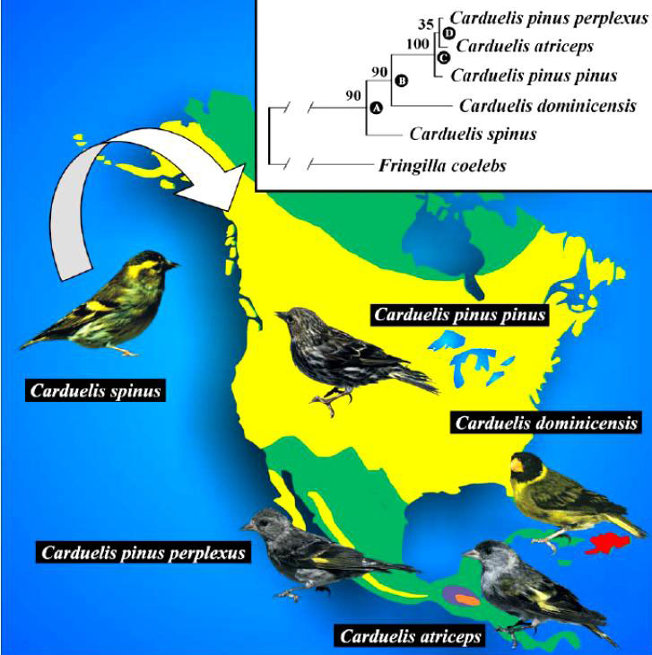 Carduelis atriceps phylogeny according to mtDNA Split A Carduelis spinus now Spinus spinus Split B Carduelis dominicensis now Spinus dominicensis Split C Carduelis pinus pinus now Spinus pinus pinus Split D Carduelis atriceps now Spinus atriceps Carduelis pinus perplexus now Spinus pinus perplexus